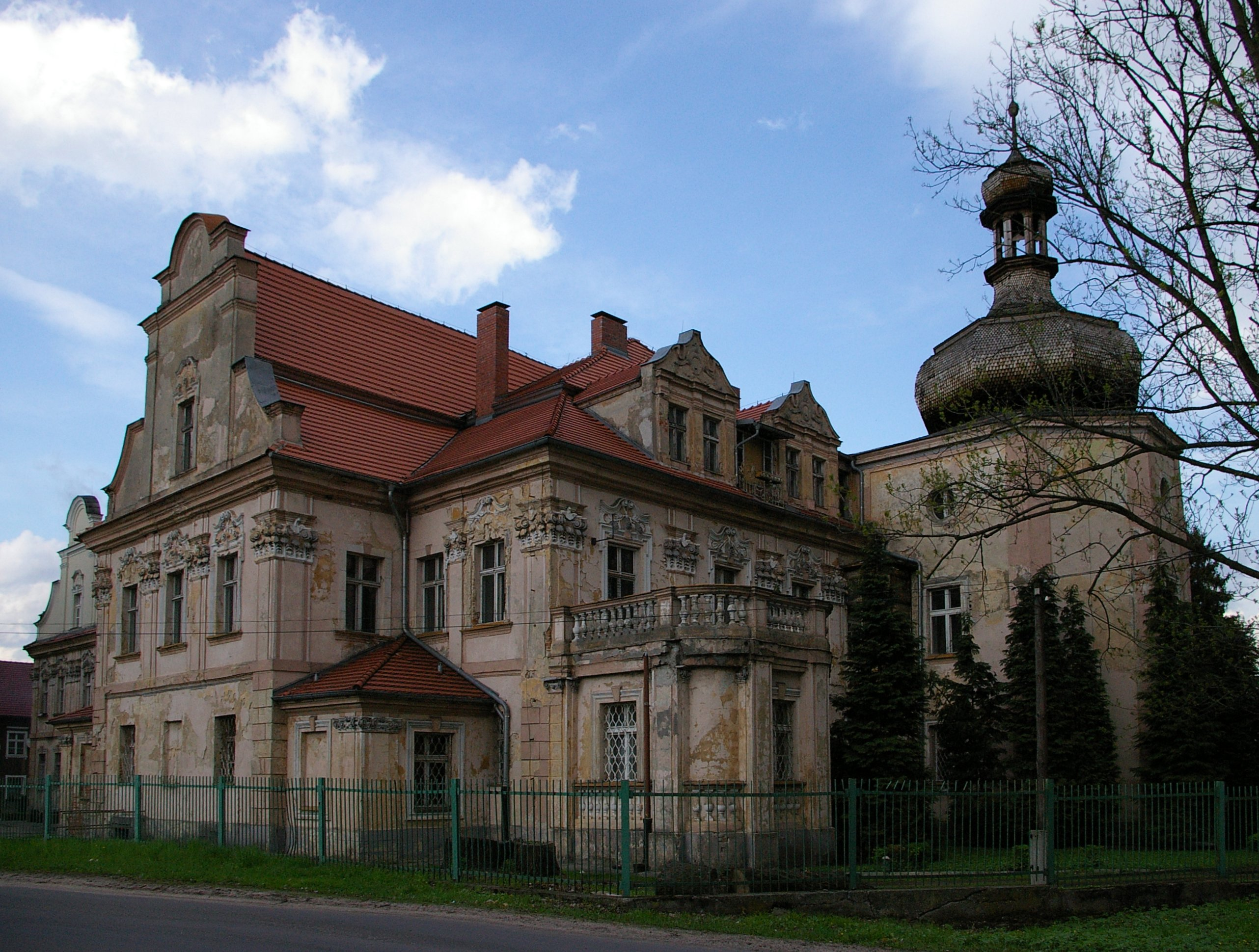 Turawa castle/palace, Opole Voivodship. 2 May 2006. Lens: Pentax SMC-DA 18 55 MM F/3.5 5.6 AL